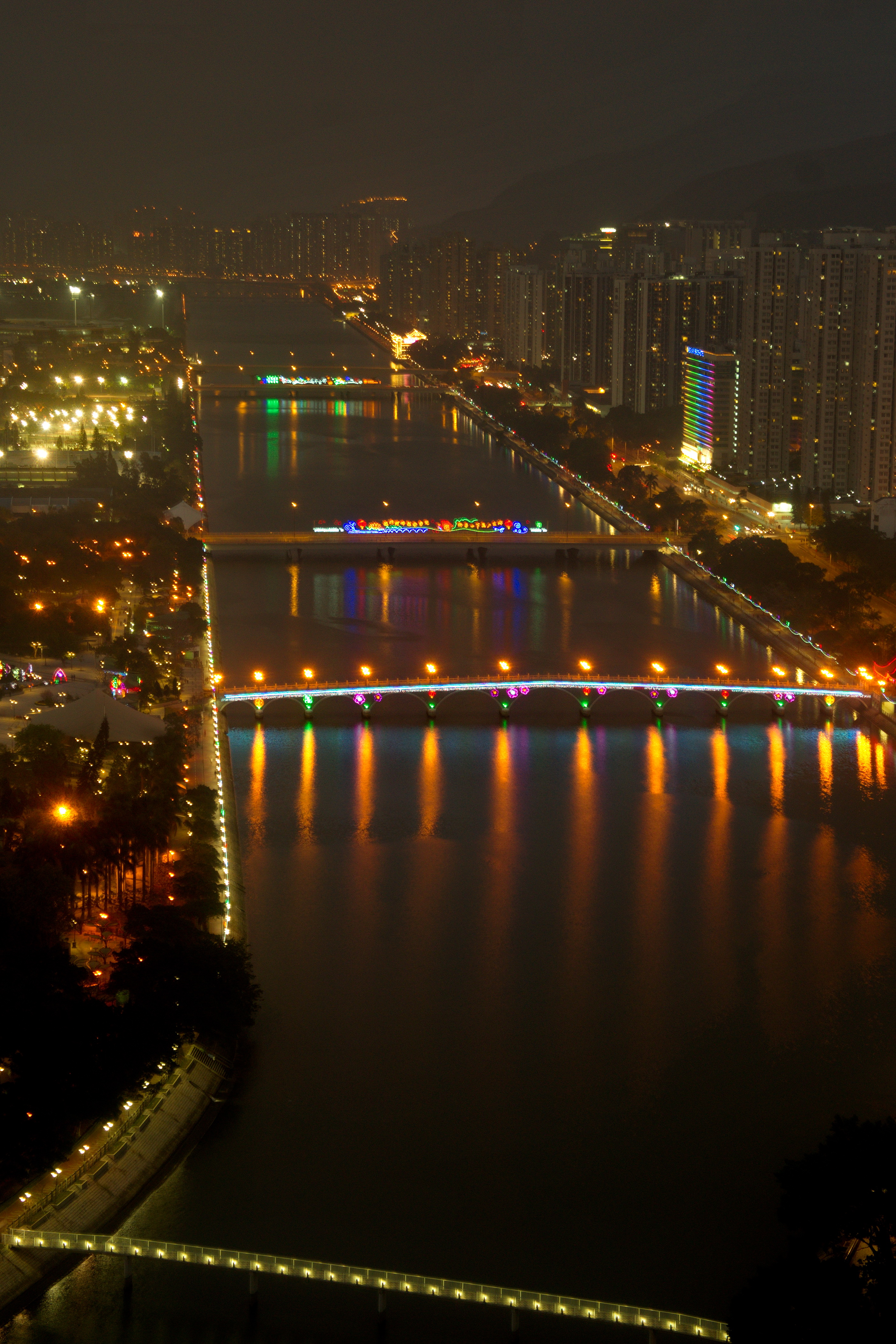 Shing Mun River Channel at night, New Territories, Hong Kong.